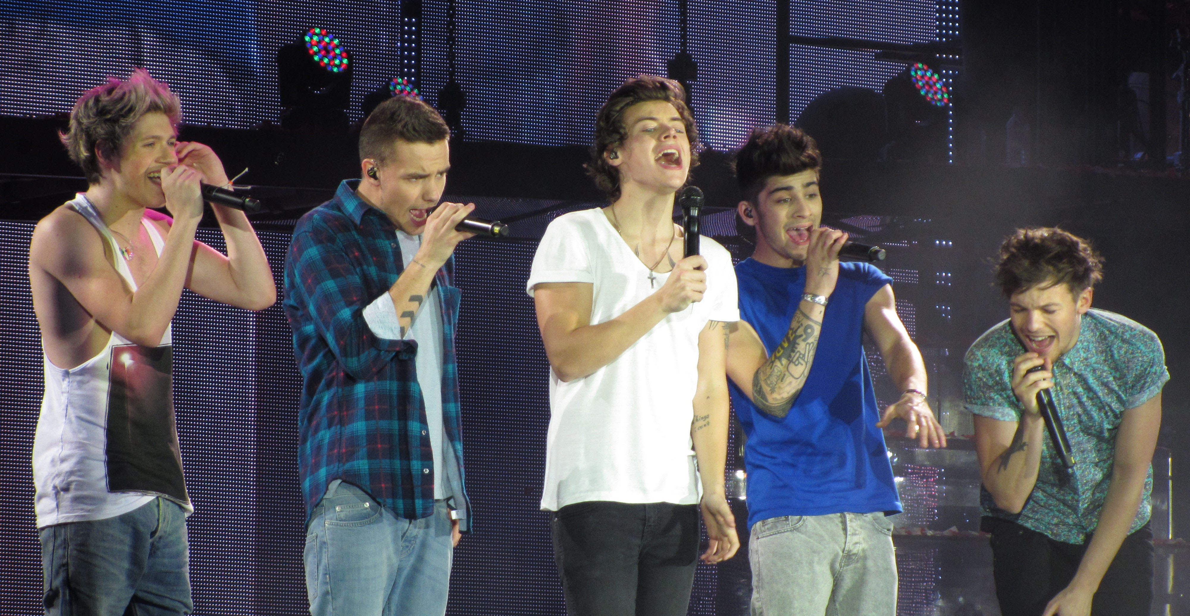 One Direction, Scottish Exhibition and Conference Centre (SECC), Glasgow, Wednesday 27 February 2013, Take Me Home Tour.